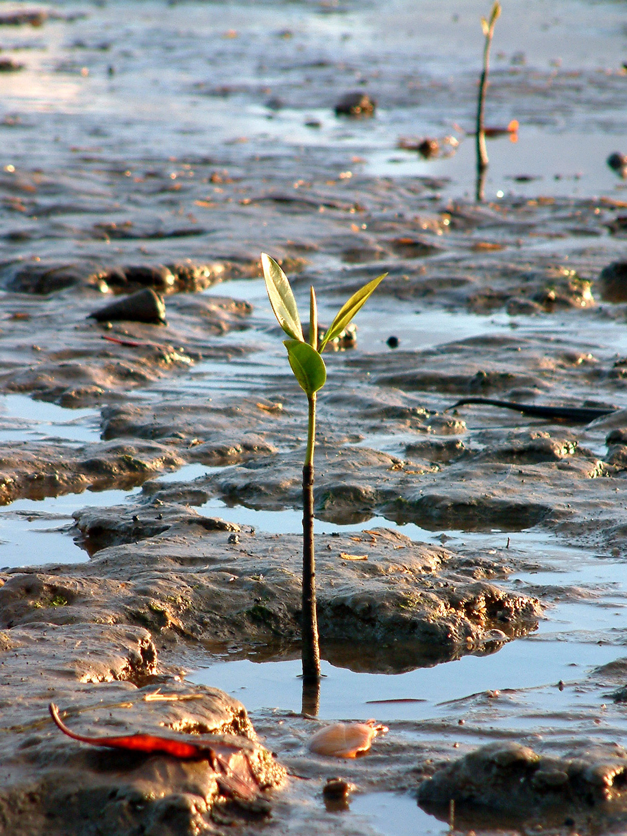 Mangrove seedling (Rhizophora sp.), Cairns's beach, Australia.